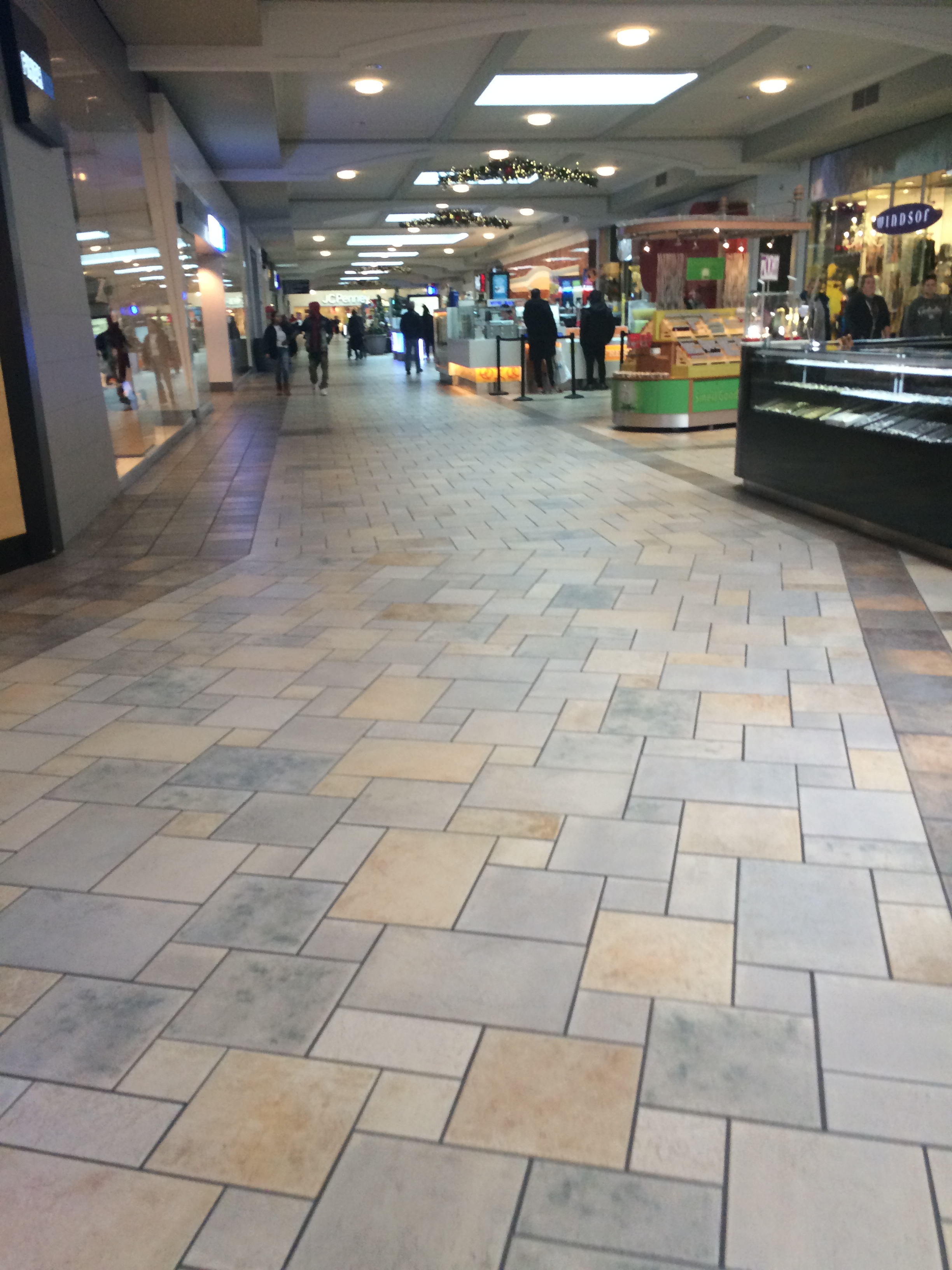 An interior of Castleton Square mall in Indianapolis, Indiana